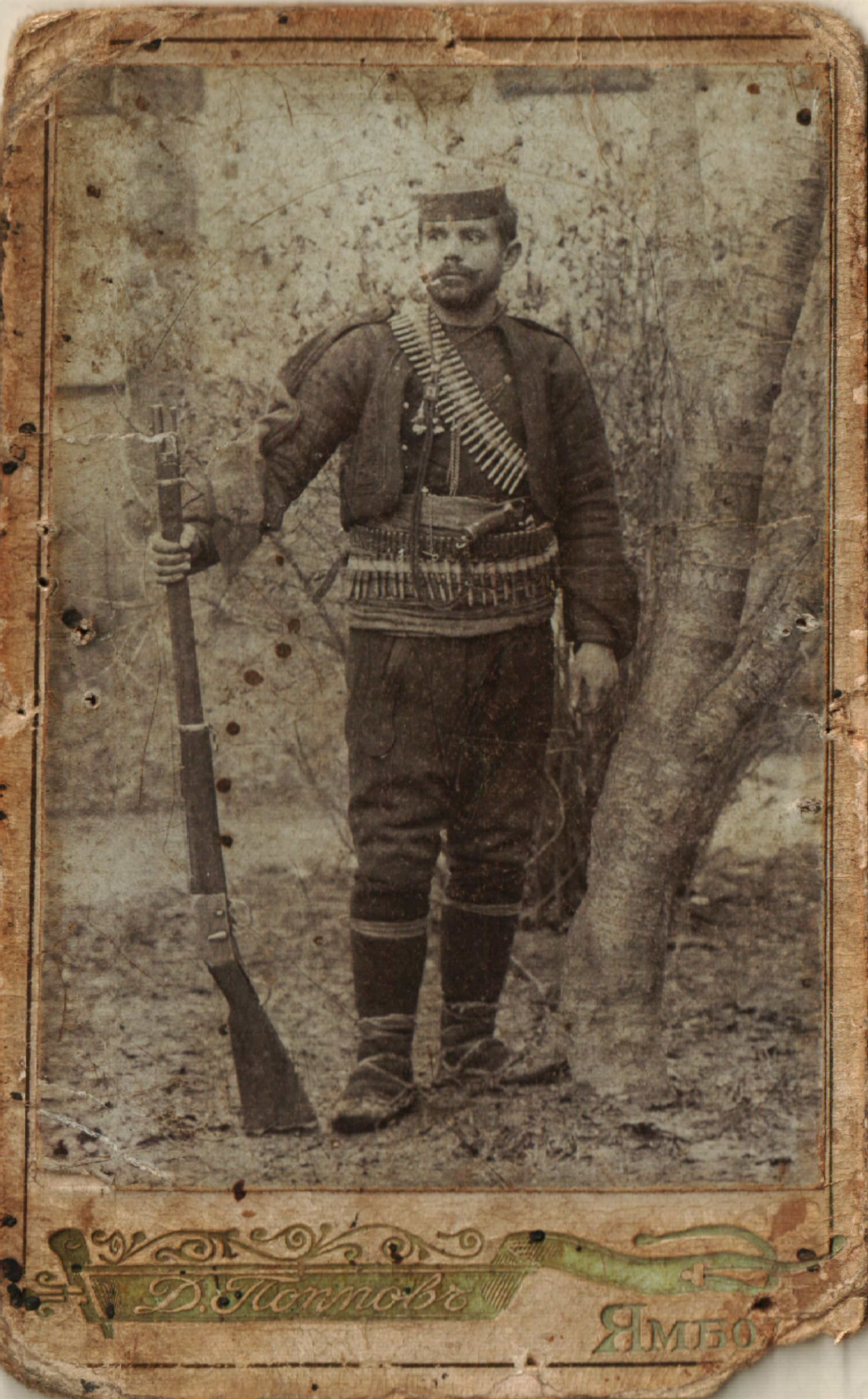 Nikola Troyancheto